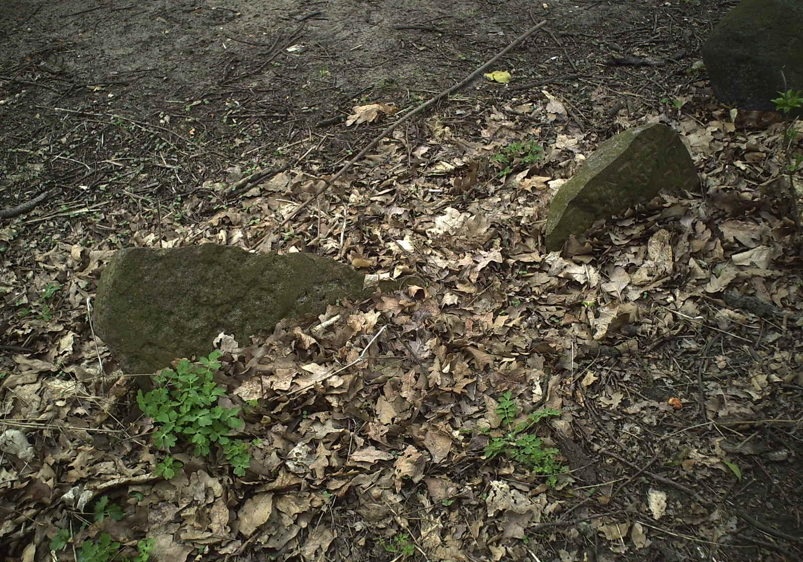 Oldest gravestones in Jewish cemetery, Skwierzyna (lubuskie voivodship), Poland.